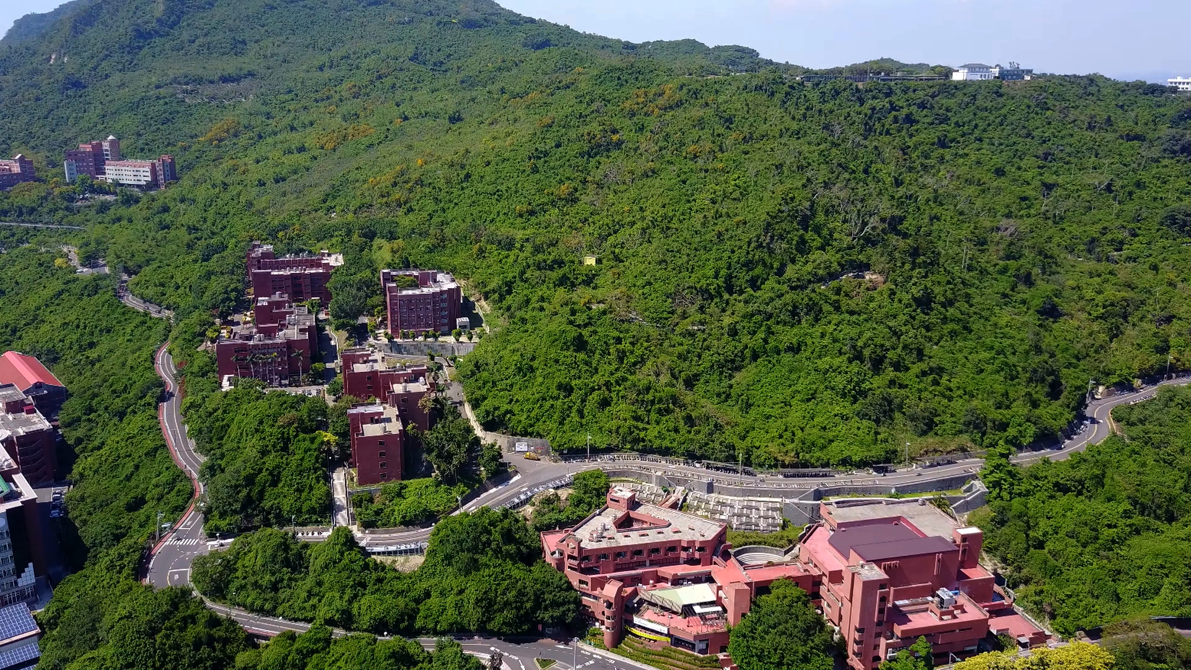 National Sun Yat-sen University Wuling Village in 2017